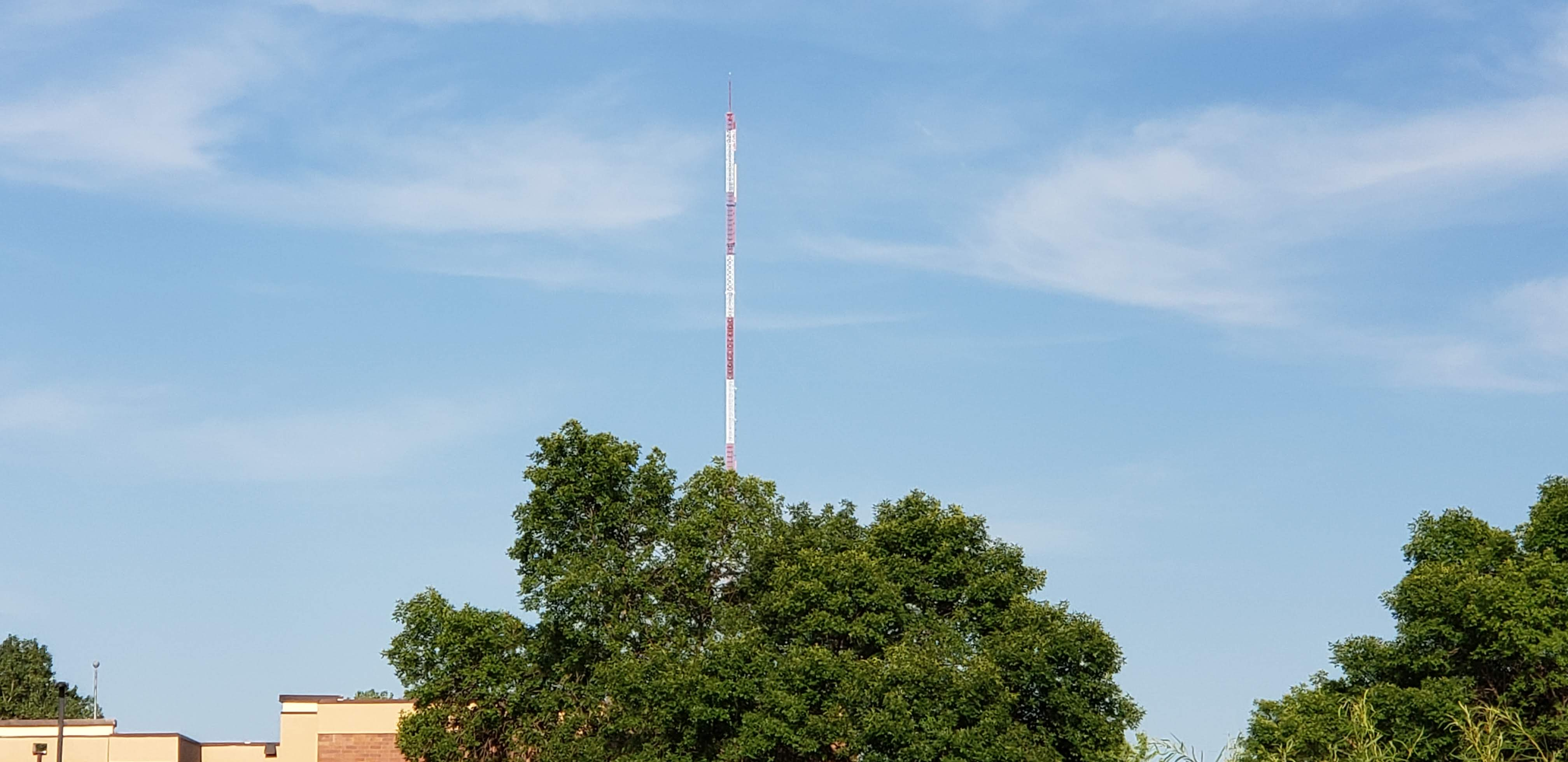 The KMSP Tower is located in Shoreview, Minnesota and carries KMSP-TV and it's sister WFTC-TV. The tower is also home to almost all of Iheart and Cumulus Media's radio stations. Twin Cities Public Television stations KTCA and KTCI come from this tower as well.